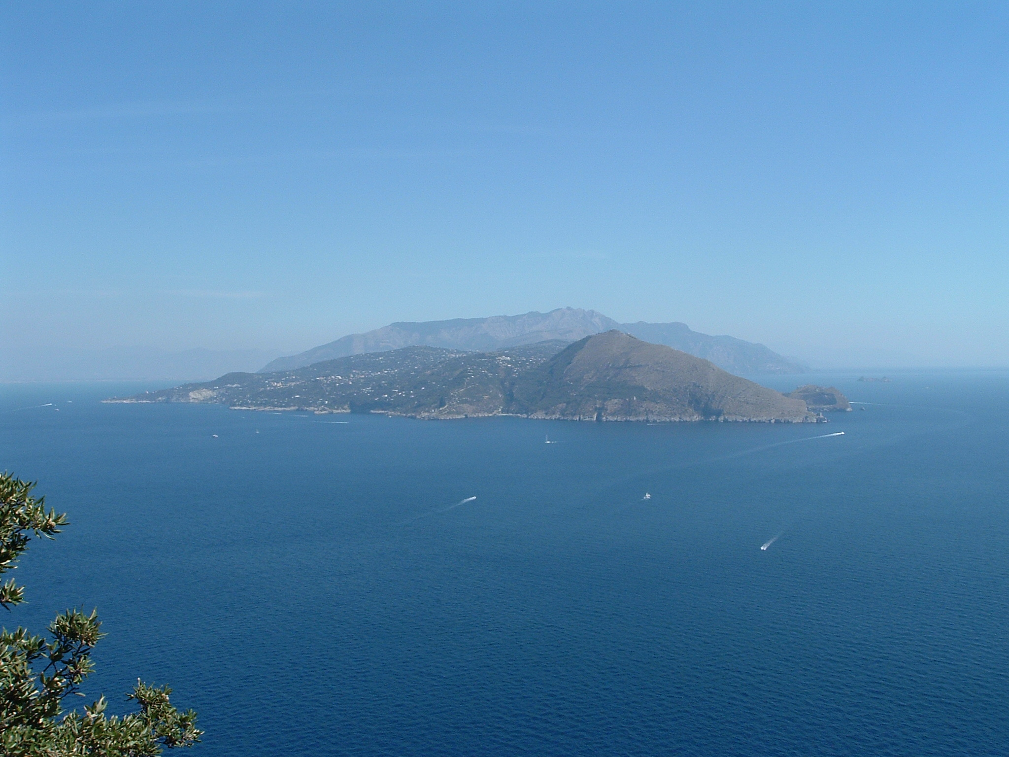 The Cliff of Sorrent(Italy) photographed from the island Capri.